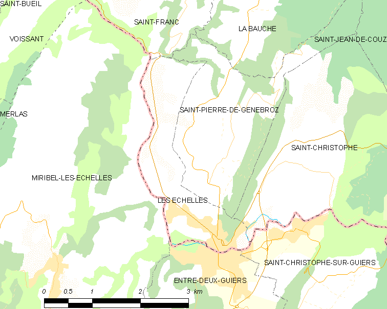 Map of French municipality